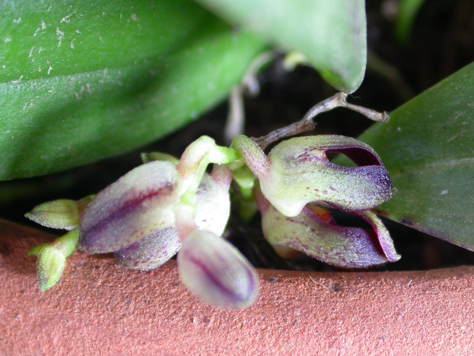 Cryptophoranthus jordanensis